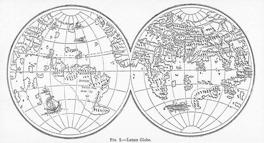 The Lenox Globe. As illustrated in the Encyclopaedia Britannica, 9th edition, Volume X, 1874, Fig.2.